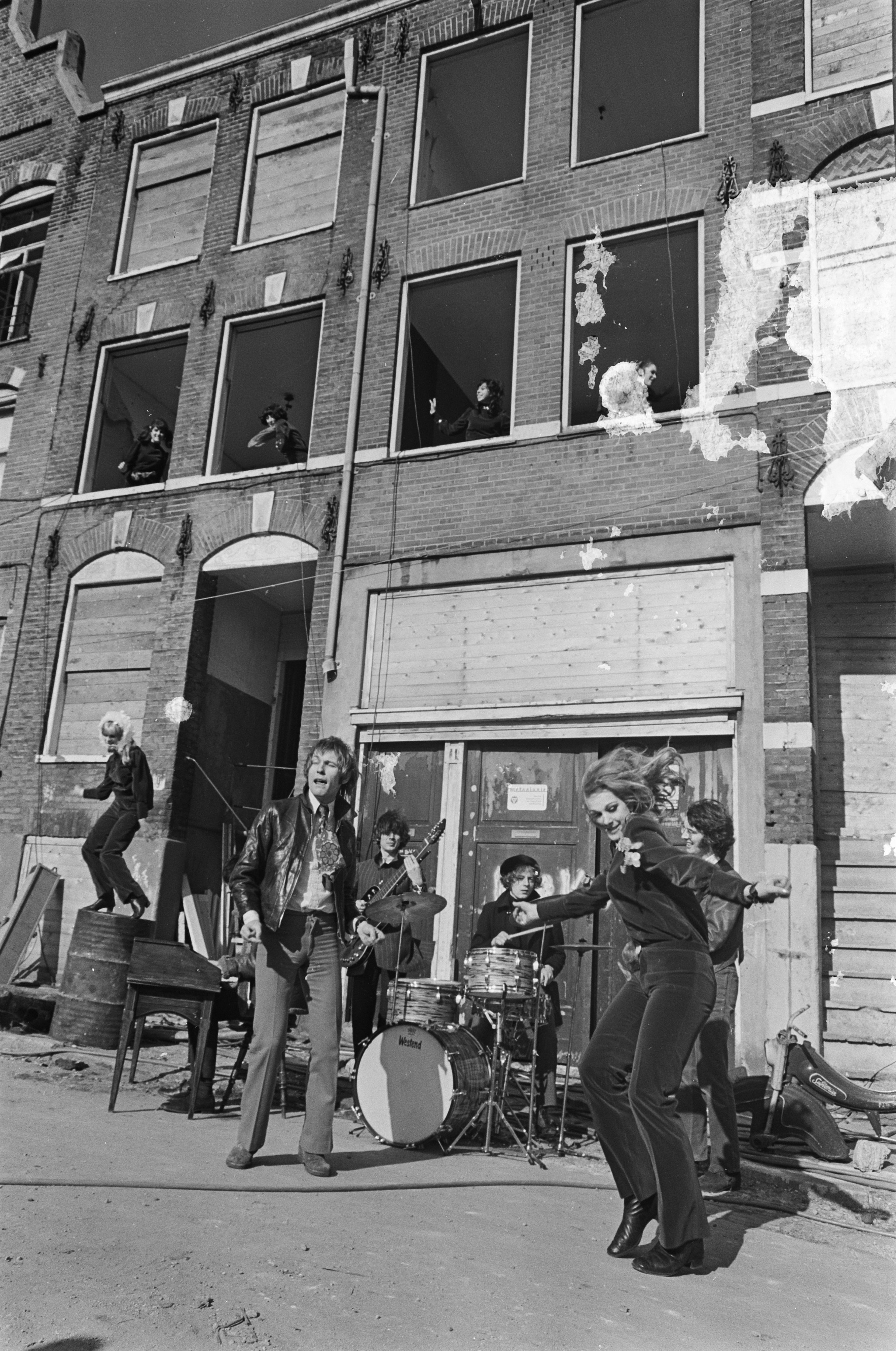 Dutch TV show Moef Ga Ga in the Kattenburg area (Amsterdam, the Netherlands), with dancers The Beat Girls (Hannah de Leeuwe on the left on the barrel) & the pop band Manfred Mann. From left to right: Manfred Mann (piano, barely visible), singer Mike d'Abo, Klaus Voormann (bass), Mike Hugg (drums) and Tom McGuinness (guitar). (Amsterdam, 22 March 1968)